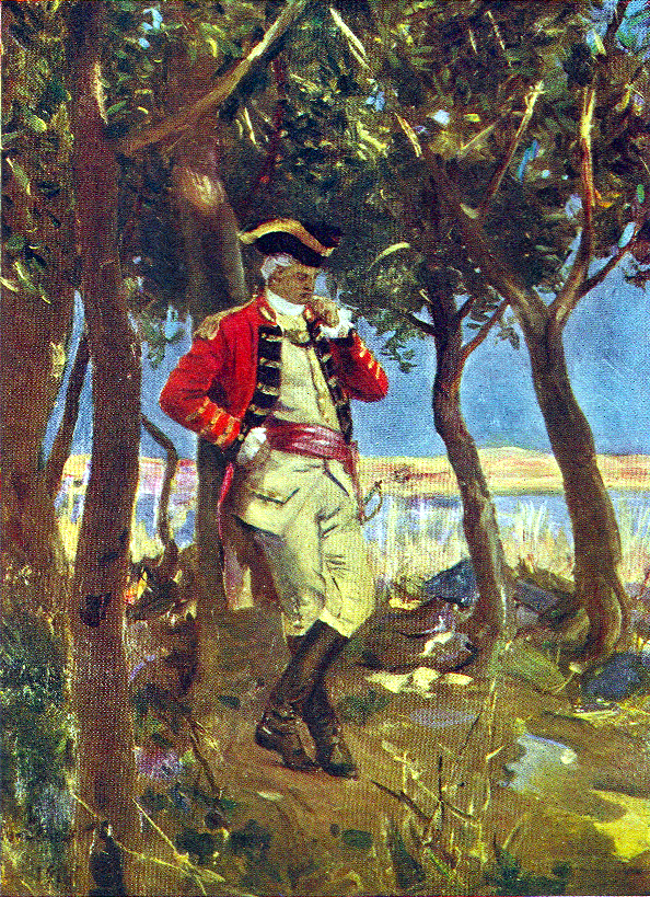 This history of India begins well before era of British colonization, during the age of the invasion of Alexander the Great, which was the west's first contact with the east. For much of the next millennium various Moslem lords rules parts of northern India. Finally, in the eighteenth century, France and Britain contested for control of the Asian trade centered in India, and for the following two centuries, India was Britain's most important colony.